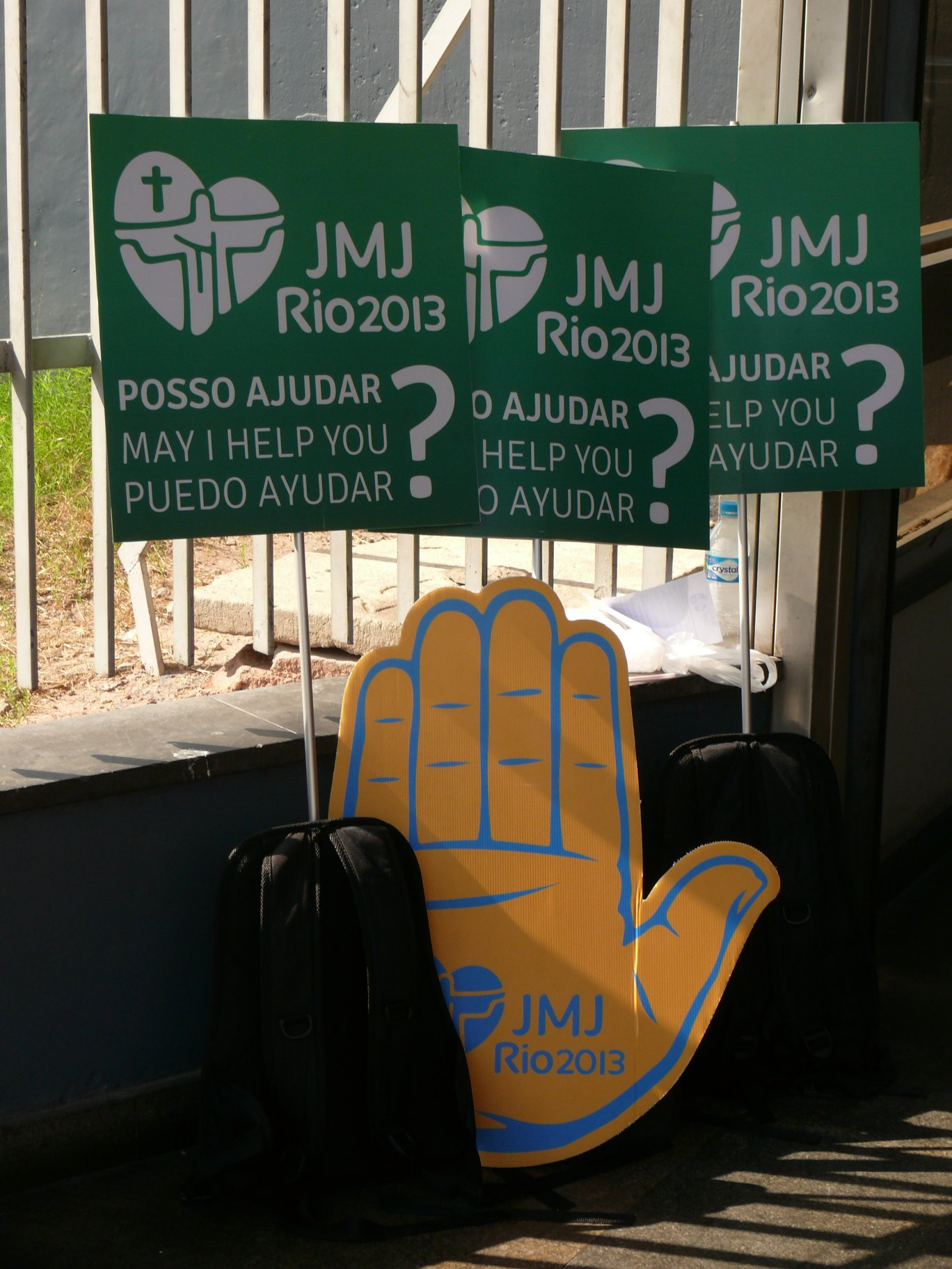 The 2013 World Youth Day in Rio de Janeiro (Brésil).